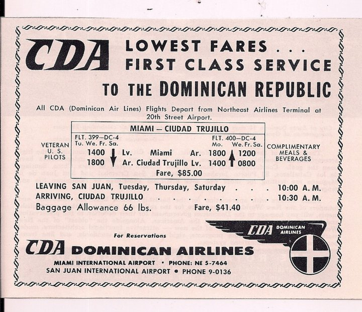 1950 it